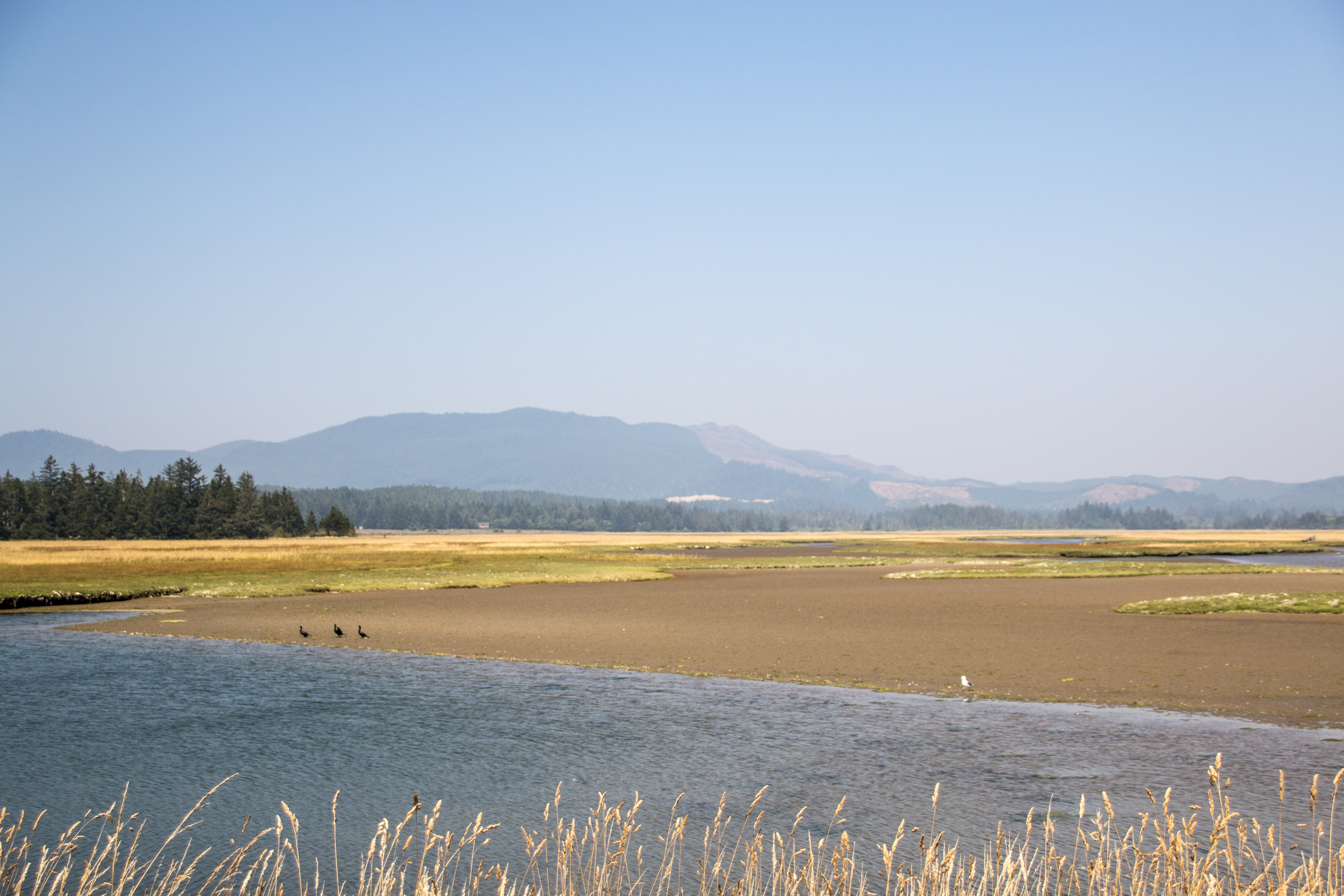 View of grasslands, estuary, and mudflats at Sitka Sedge State Natural Area, Oregon